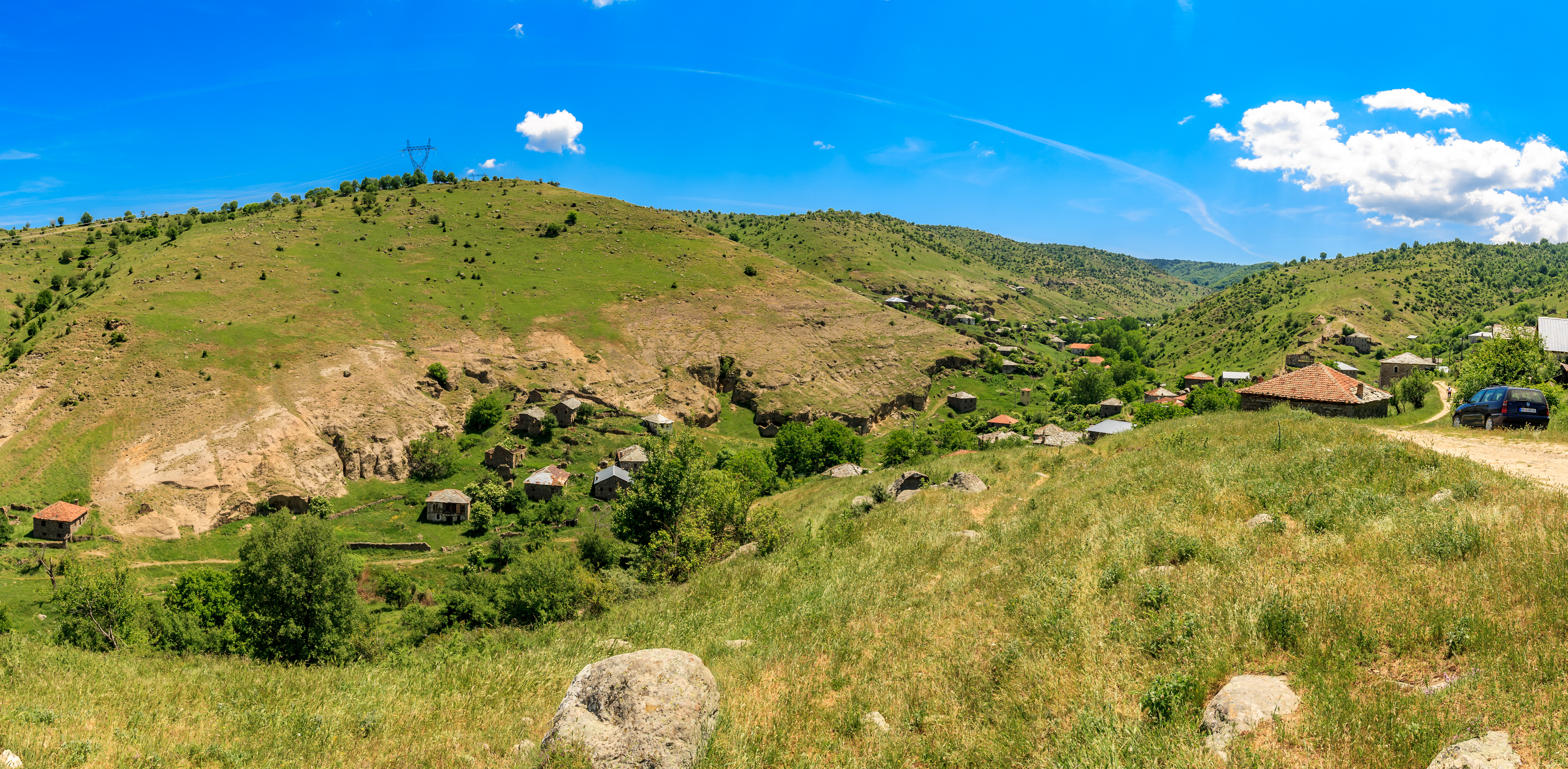 Panoramic view of the village Polčište, Mariovo